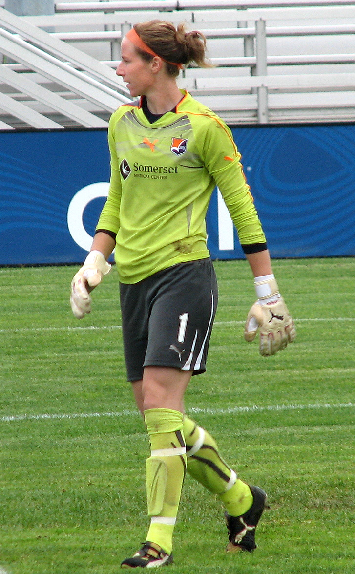 Karen Bardsley of the New Jersey Sky Blue FC.